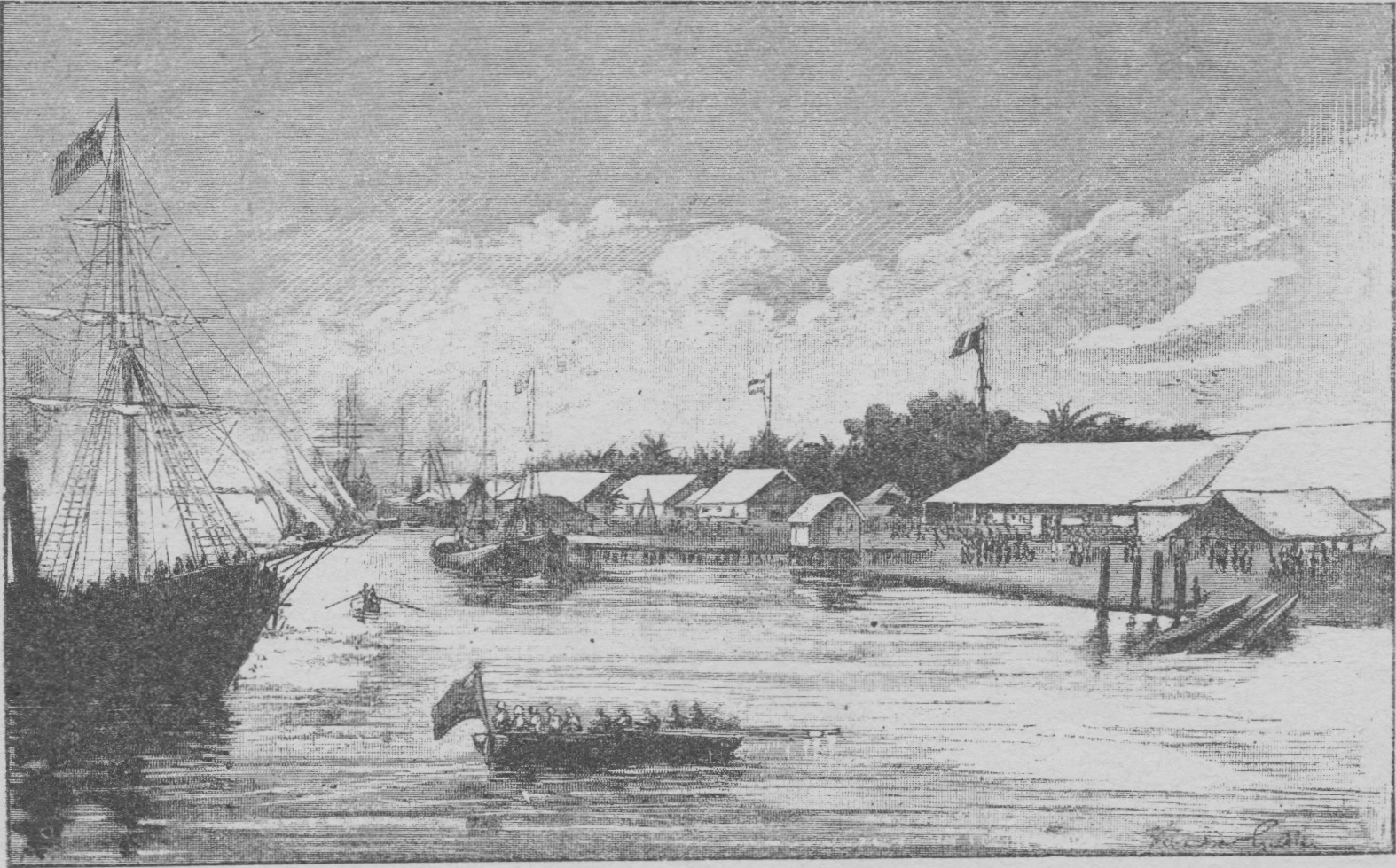 Stanley's Expedition arrives in Banana, March 18, 1887, The Congo. From the book "Stanleys expedition till Emin Paschas undsättning" (1890) Author: Alphonse-Jules Wauters Translator: Oscar Heinrich Dumrath.